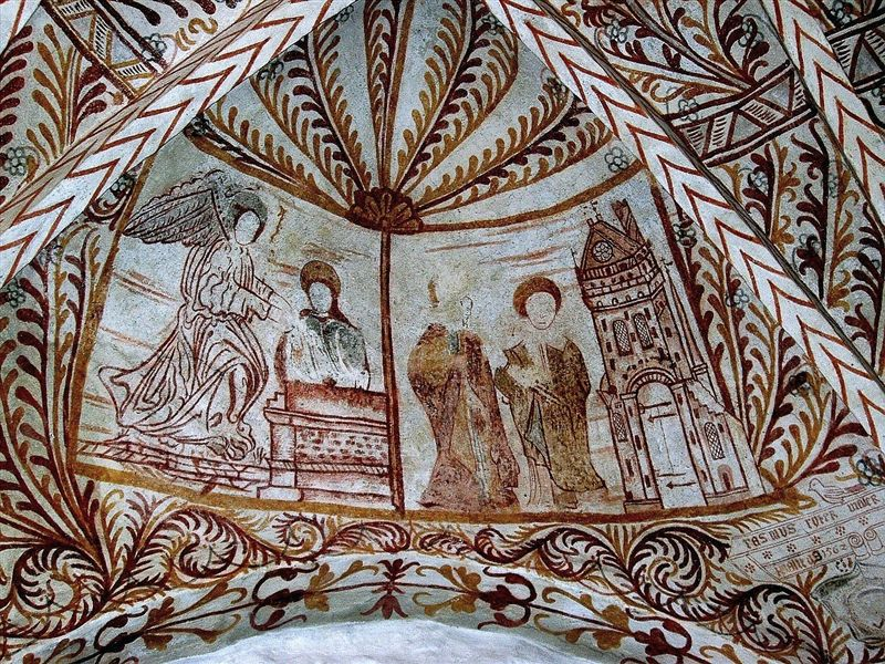 Frescos in Auning Kirke (church) in Norddjurs Kommune made and signed by Rasmus Ryter in 1562